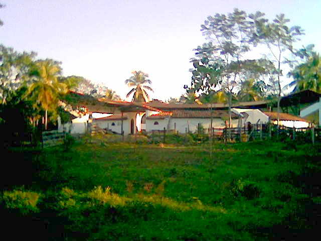 Hacienda Nápoles, private bullring.